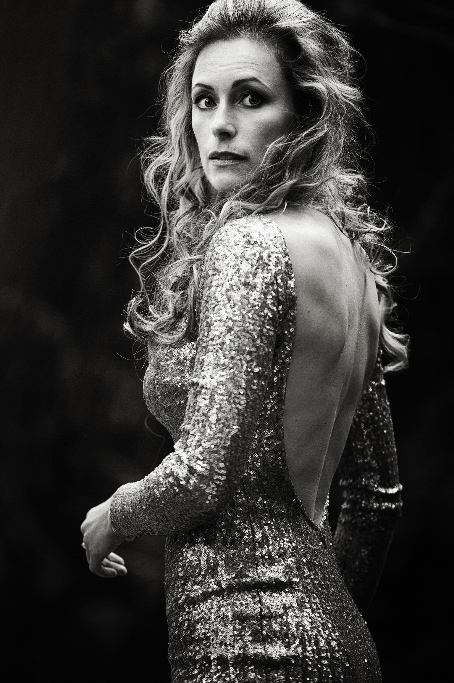 Sarah Maria Sun (* 15 February 1978 in Hamm) is a German singer (soprano).